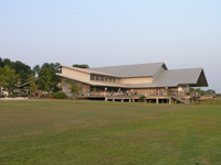 The North Carolina Estuarium in Washington, North Carolina. Photo by A. T. Kelso (2007).